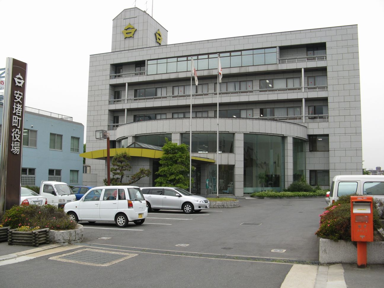 Ando Town Office in Nara Prefecture, Japan